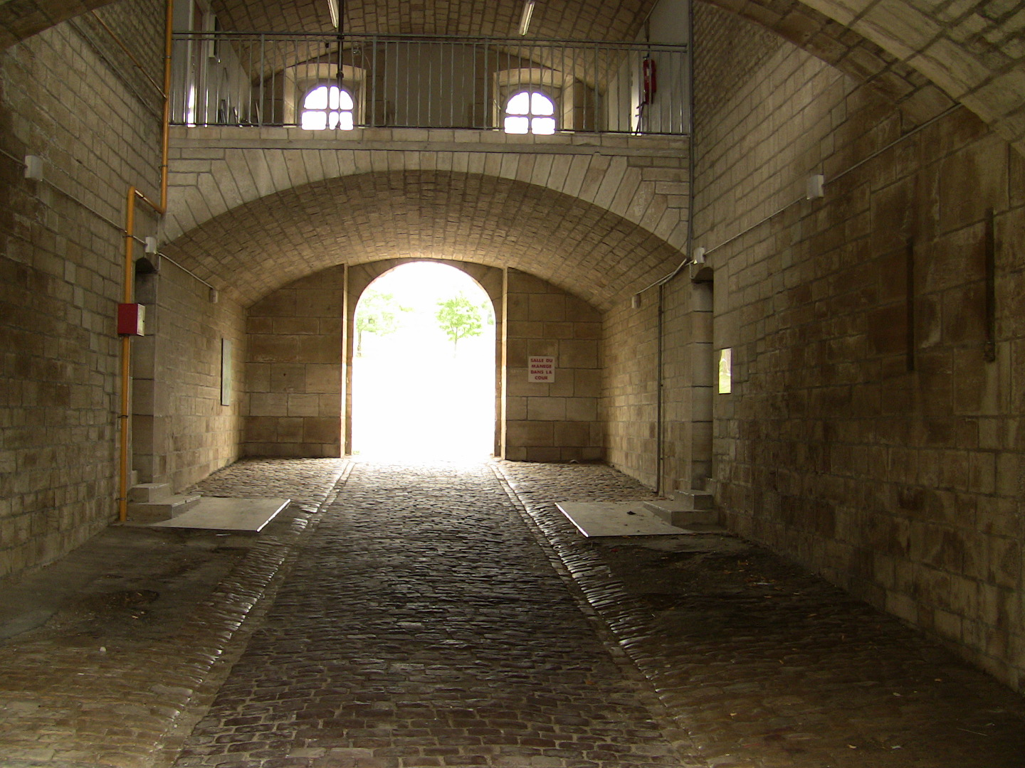 Entrance of the Fort of Bregille, located in Besançon (France)